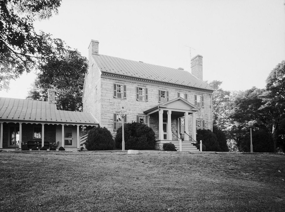 Stone House, State Route 687, Lexington vicinity (Rockbridge County, Virginia) cropped, HABS VA,82-LEX.V,4-1 This file comes from the Historic American Buildings Survey (HABS), Historic American Engineering Record (HAER) or Historic American Landscapes Survey (HALS). These are programs of the National Park Service established for the purpose of documenting historic places. Records consist of measured drawings, archival photographs, and written reports. When reusing please credit: Library of Congress, Prints & Photographs Division, VA-899 This tag does not indicate the copyright status of the attached work. A normal copyright tag is still required. See Commons:Licensing. This work is in the public domain in the United States because it is a work prepared by an officer or employee of the United States Government as part of that person’s official duties under the terms of Title 17, Chapter 1, Section 105 of the US Code. Note: This only applies to original works of the Federal Government and not to the work of any individual U.S. state, territory, commonwealth, county, municipality, or any other subdivision. This template also does not apply to postage stamp designs published by the United States Postal Service since 1978. (See § 313.6(C)(1) of Compendium of U.S. Copyright Office Practices). It also does not apply to certain US coins; see The US Mint Terms of Use. This file has been identified as being free of known restrictions under copyright law, including all related and neighboring rights. Object location37° 46′ 32″ N, 79° 27′ 34″ W